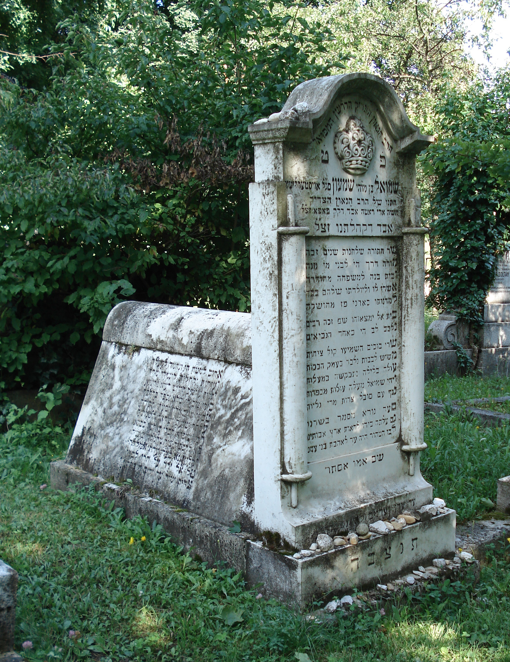 Sámuel Austerlitz chief rabbi's grave, Zsidótemető, Avas, Miskolc, Hungary ລາວ: Austerlitz Sámuel főrabbi sírja, Avas, Miskolci zsidótemető